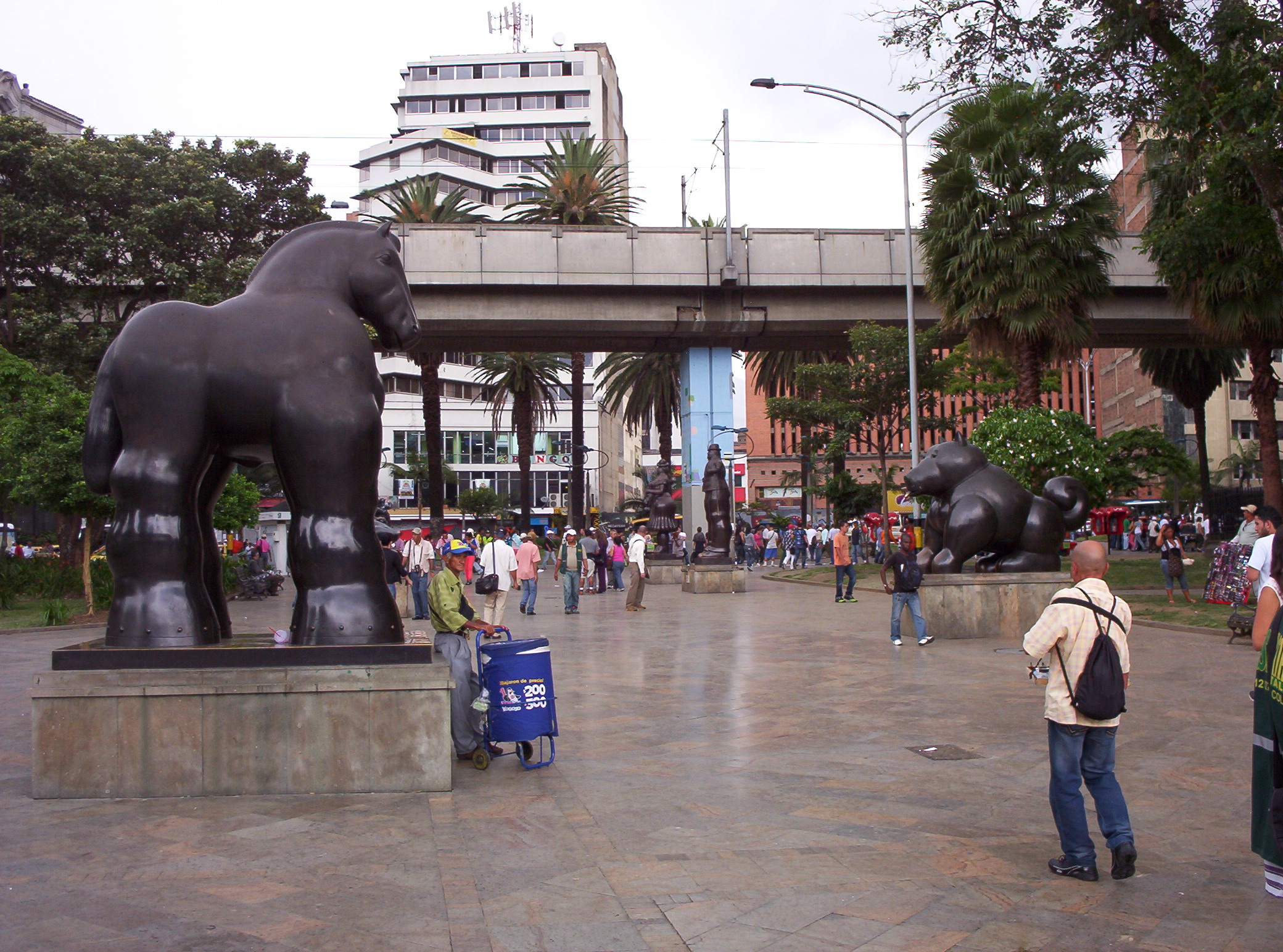 Plaza/Parque Botero, Medellin Colombia